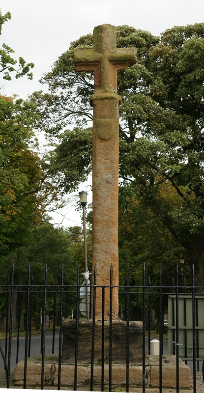 Ormiston Market Cross, Ormiston, East Lothian, Scotland.